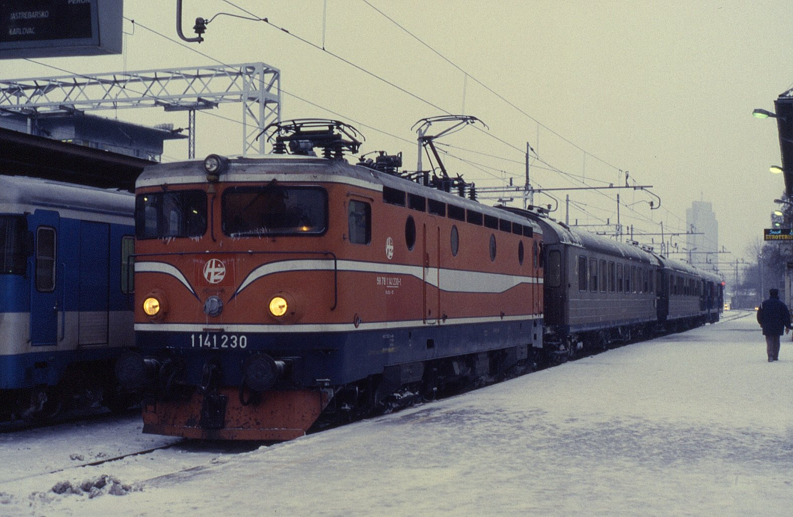 HŽ 1141 at Zagreb Main train station.